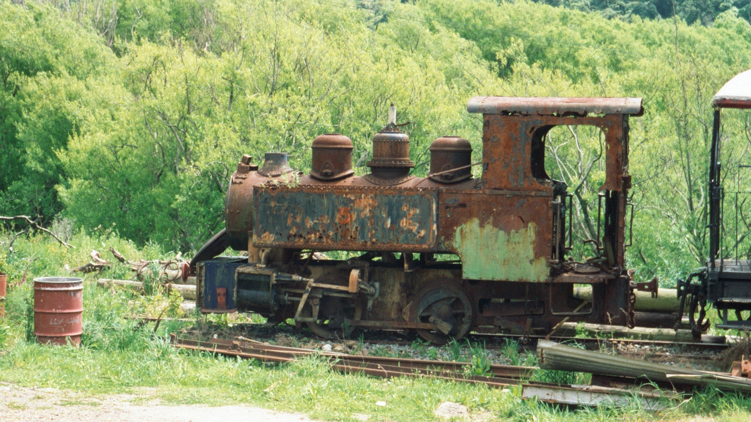 unknown unrestored loco, Silver Stream Railway, New Zealand